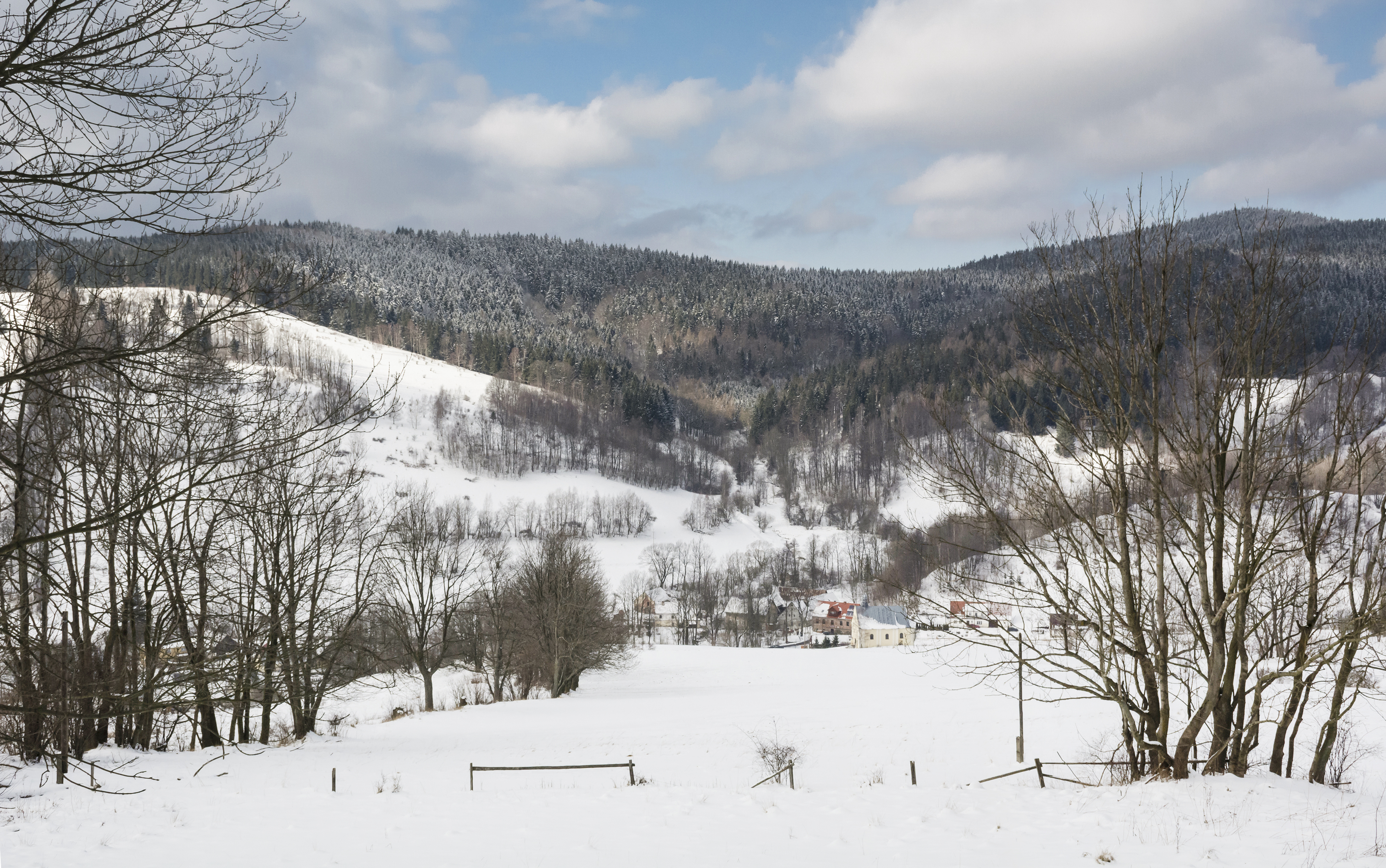 Lutynia